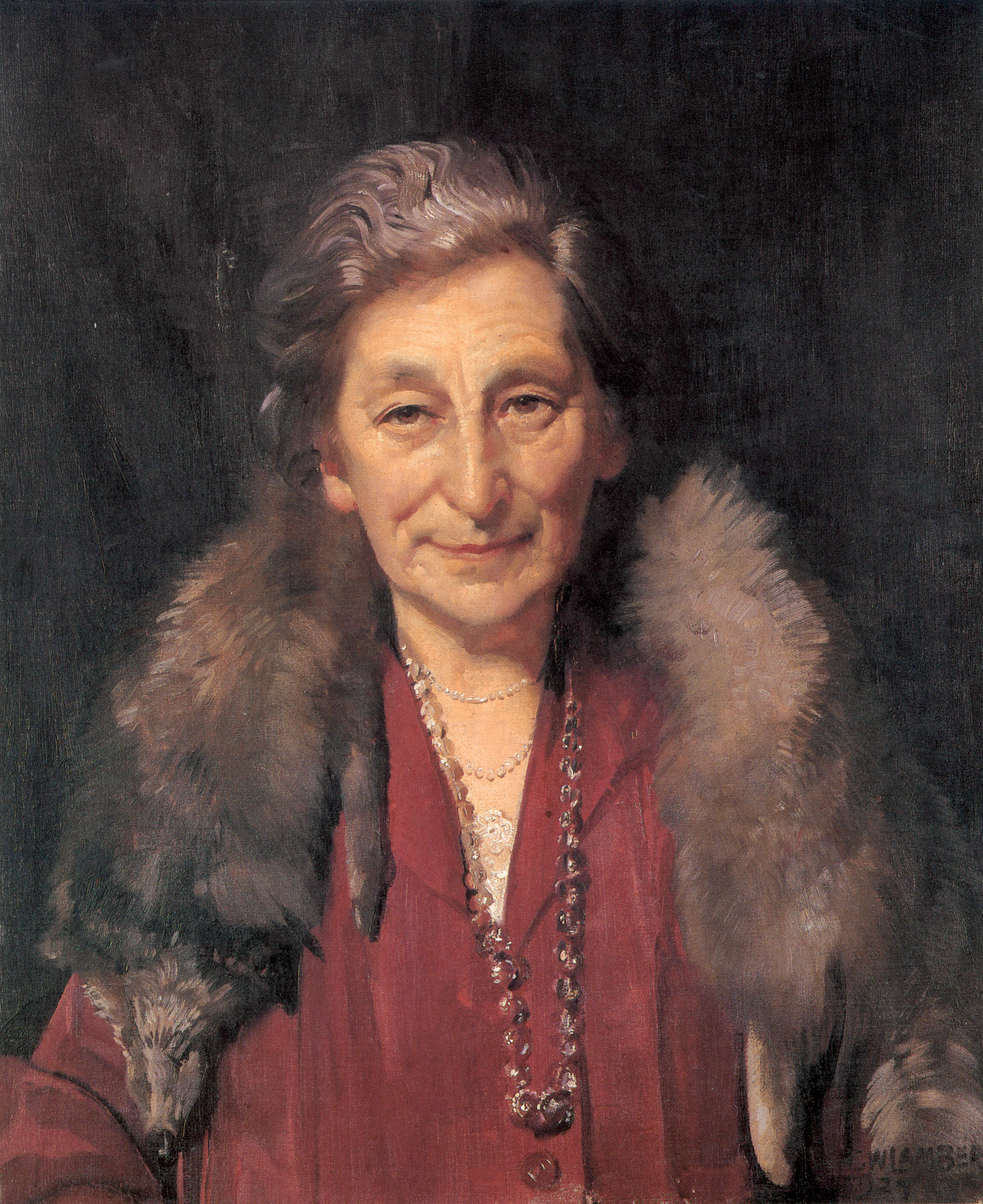 Mrs Annie Murdoch, the Archibald Prize winning painting in 1927, painted by George Washington Lambert (1873–1930)